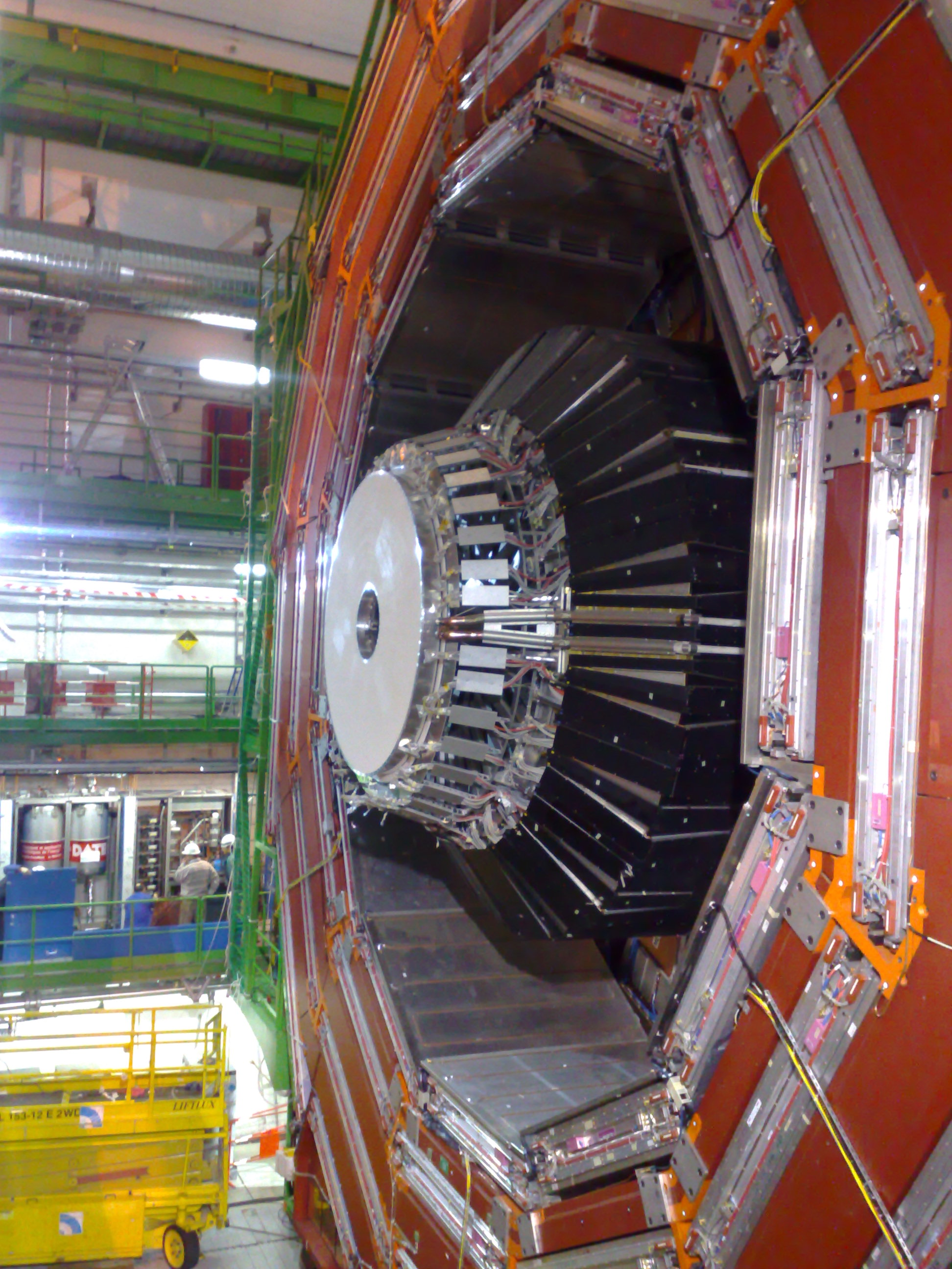 Compact Muon Solenoid muon chambers.CMS experiment (100 meters underground) @ CERN